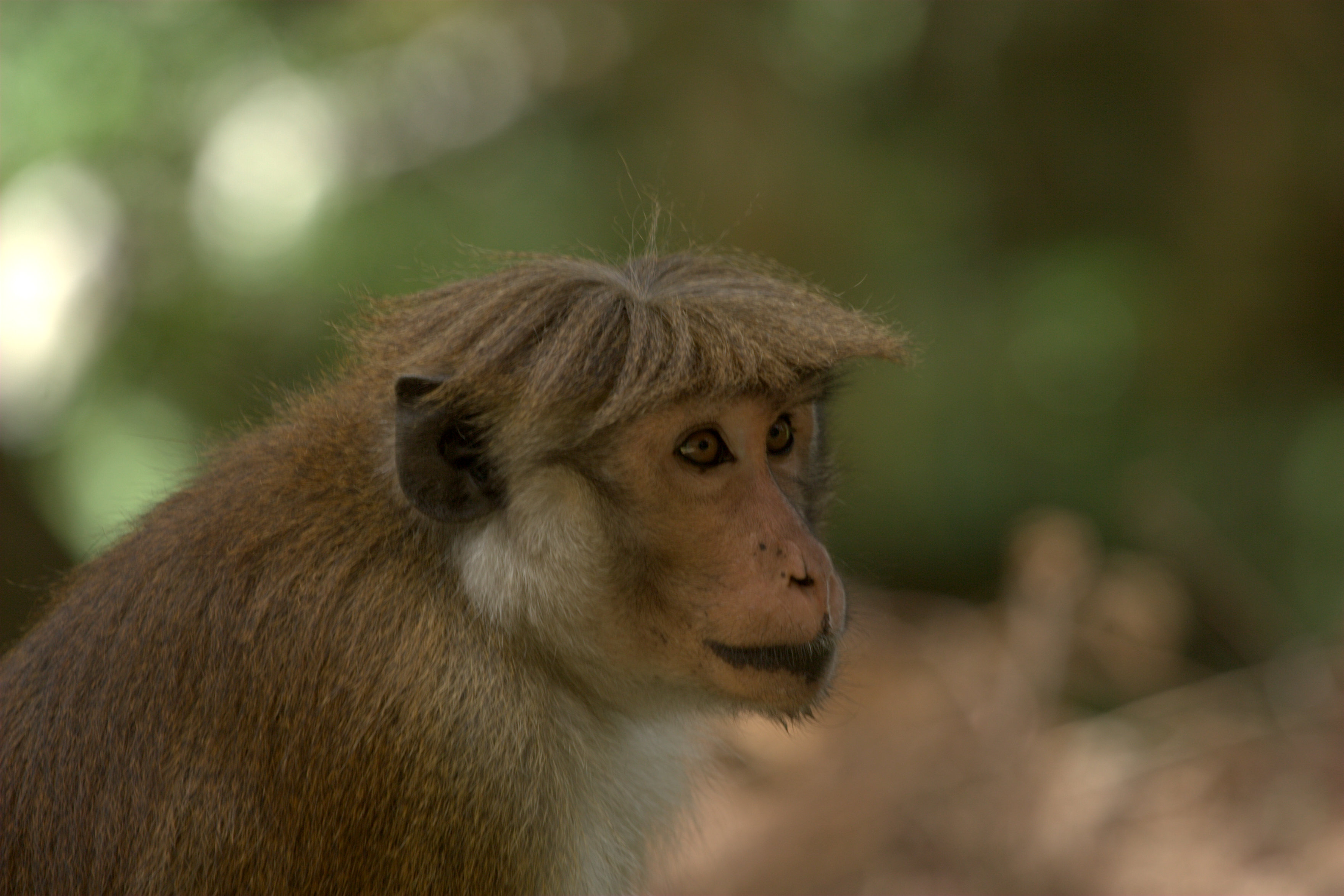 Macaca sinica aurifrons - Wetzone subspecies